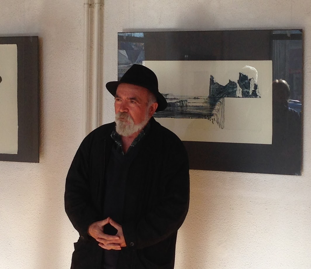 Zvonimir Kostić Palanski, the painter and writer from Nis